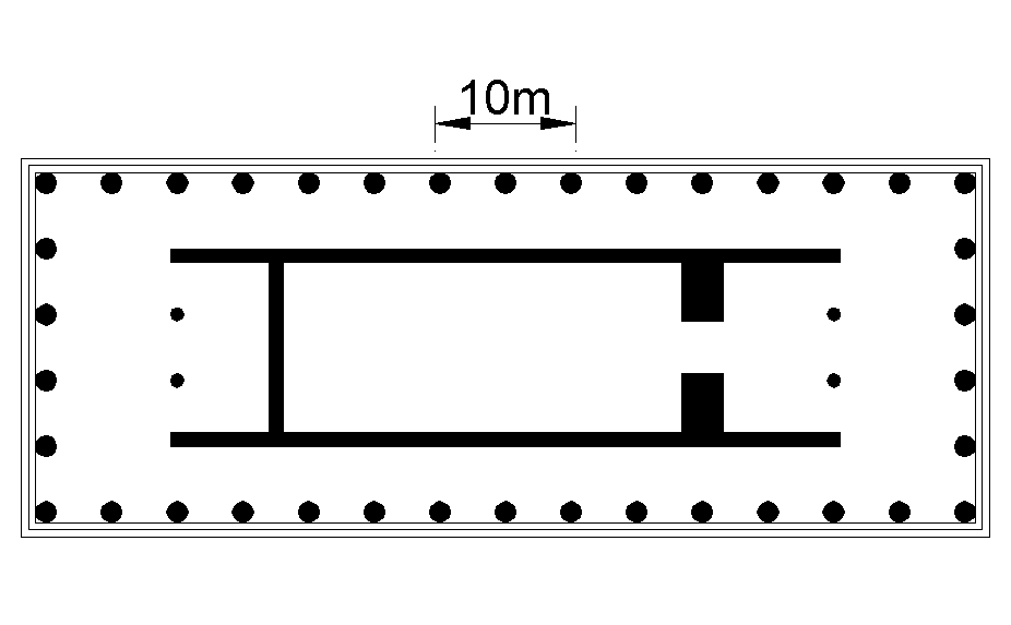 Agrigento Plan of temple A (Temple of Heracles)